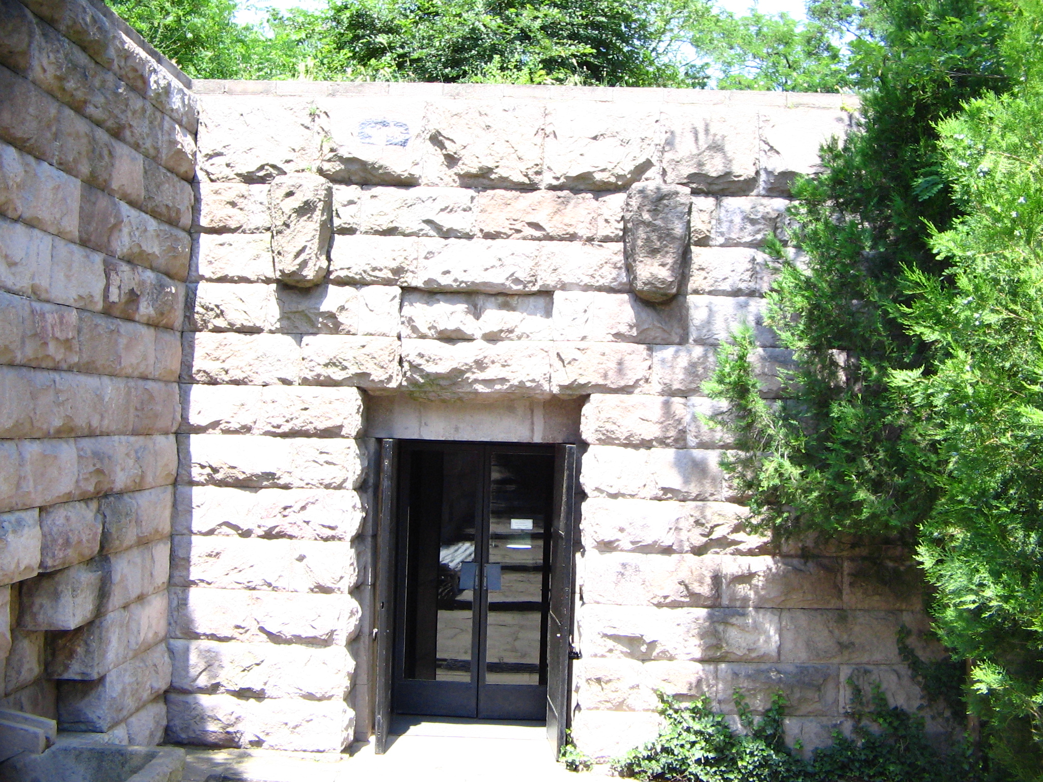 The entrance of the thracian tomb near Kazanlak, Bulgaria